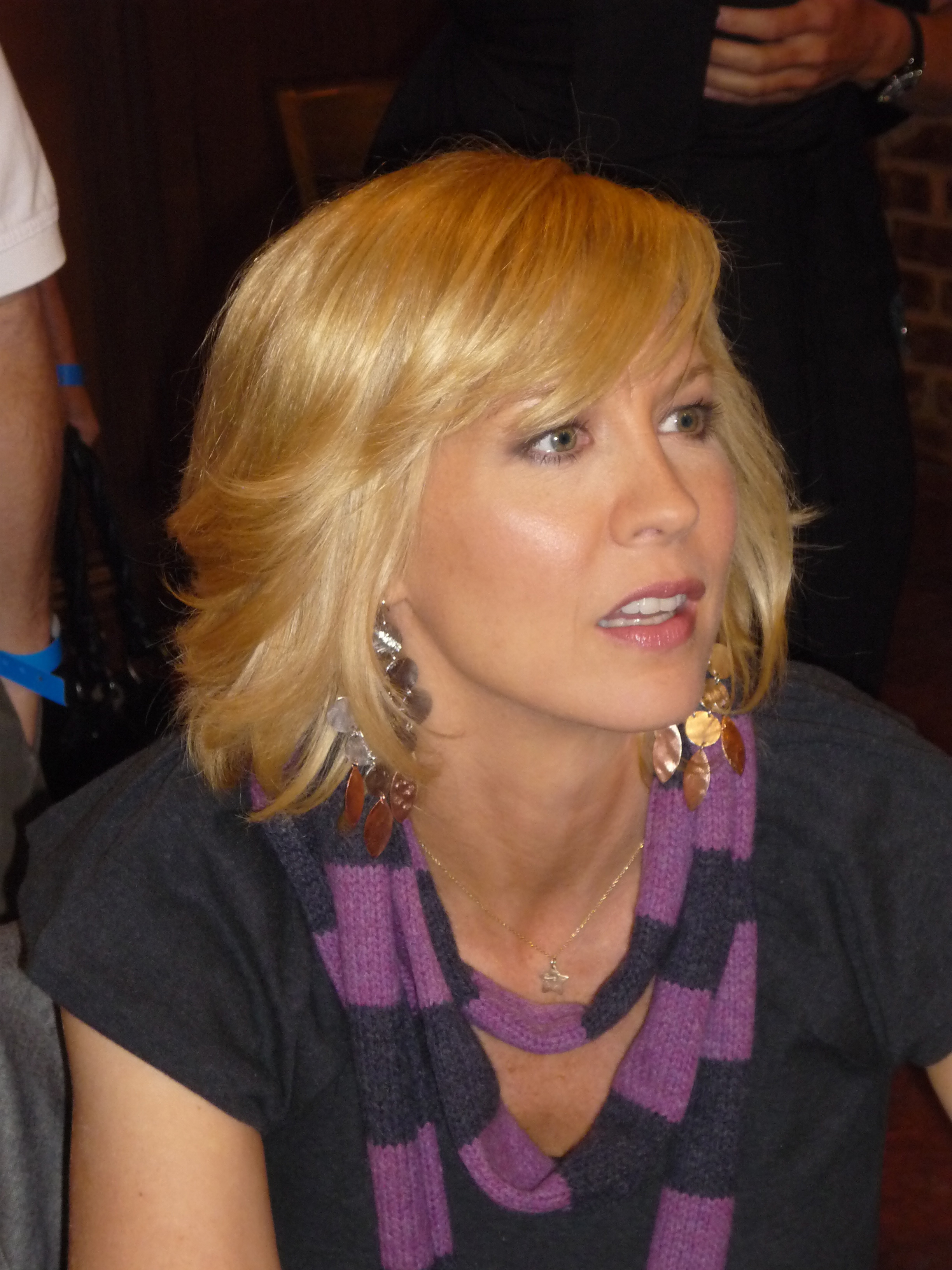 The Comedy actress Jenna Elfman in October 2009.